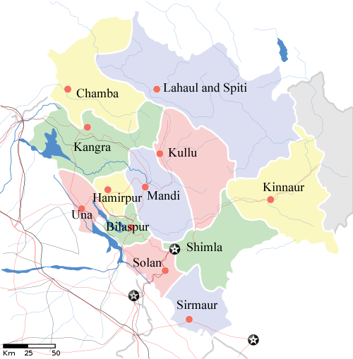 Himachal Pradesh locator Districts map